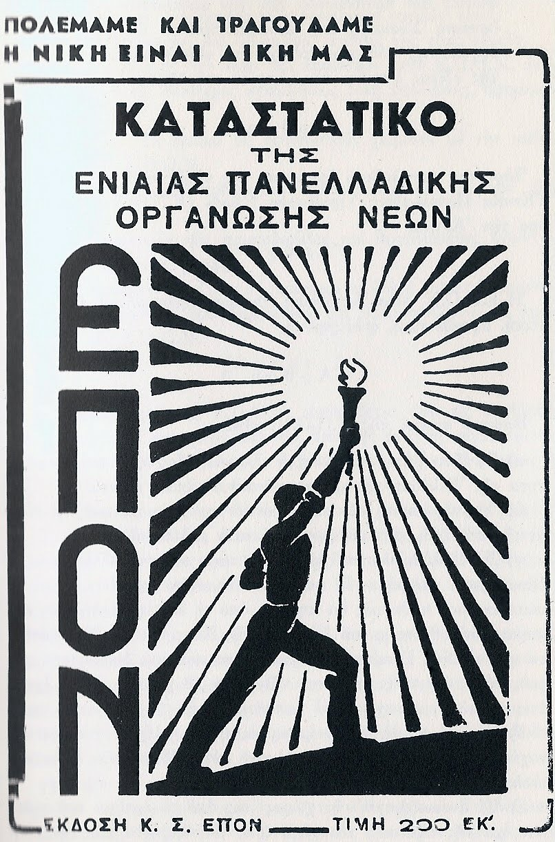 Charter of United Panhellenic Organization of Youth published in the journal Nea Genia (New Generation) in April 1943